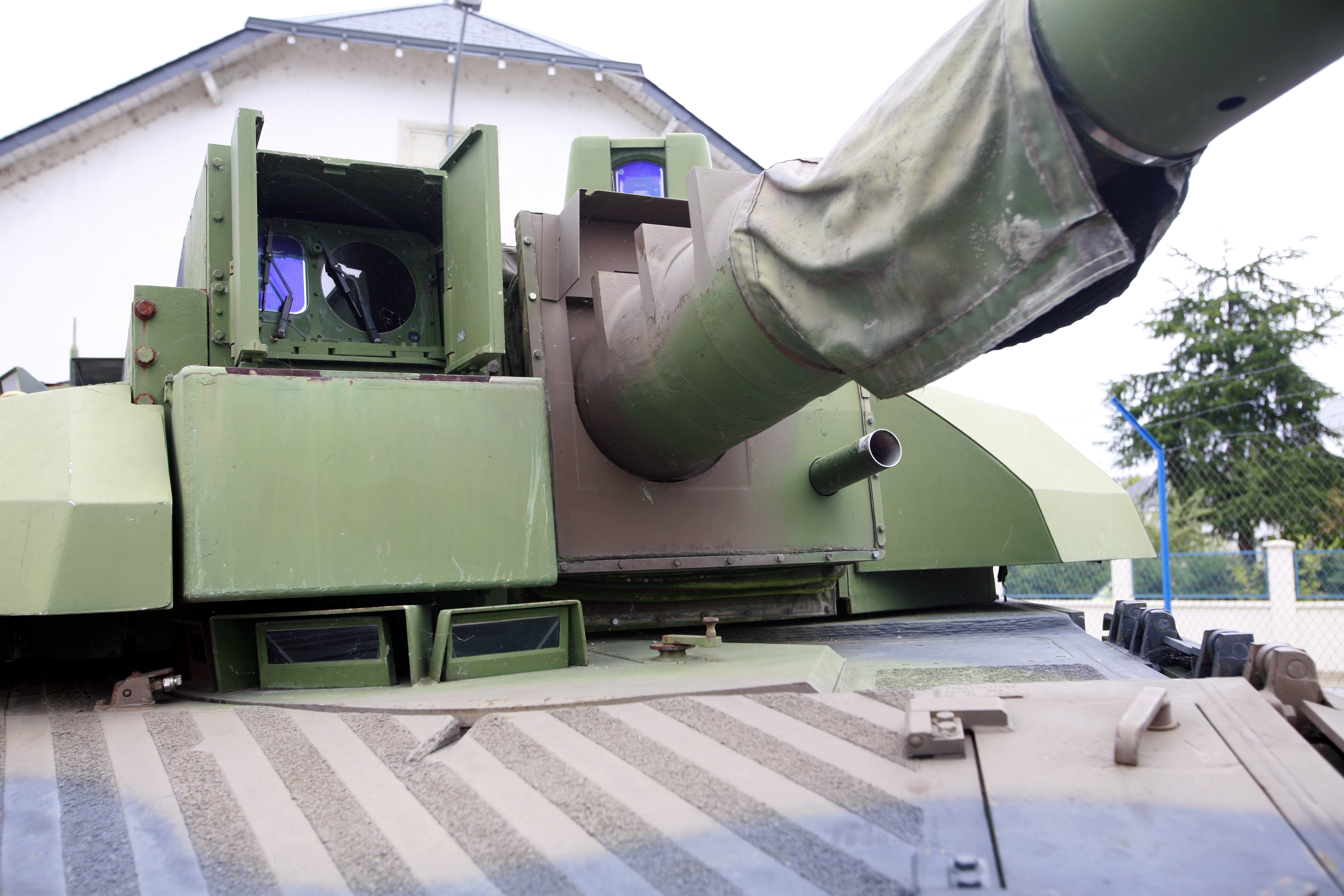 Leclerc prototype Foch. On display at Saumur Général Estienne museum.